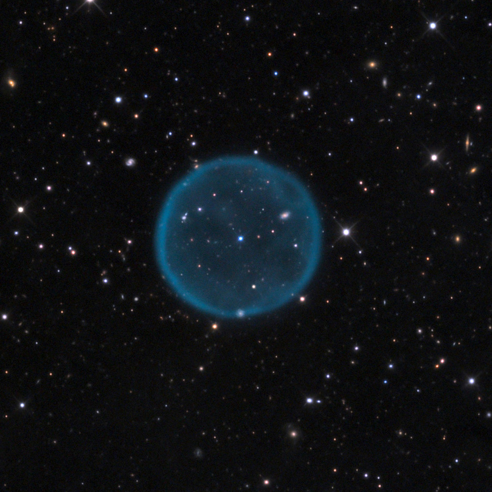 Planetary Nebula Abell 39 captured from the Mount Lemmon SkyCenter using the Schulman 32 inch Telescope.